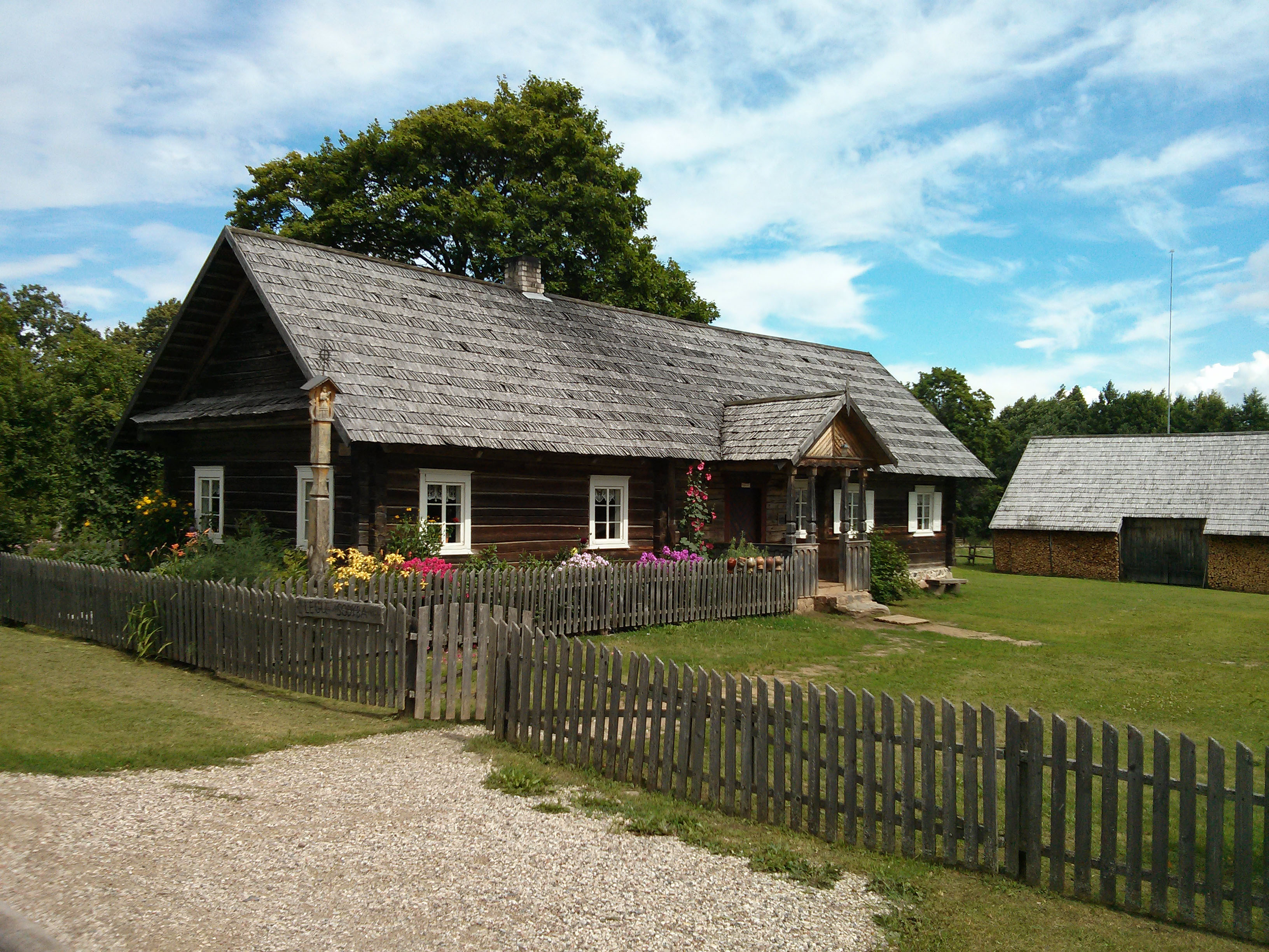 Horse Museum